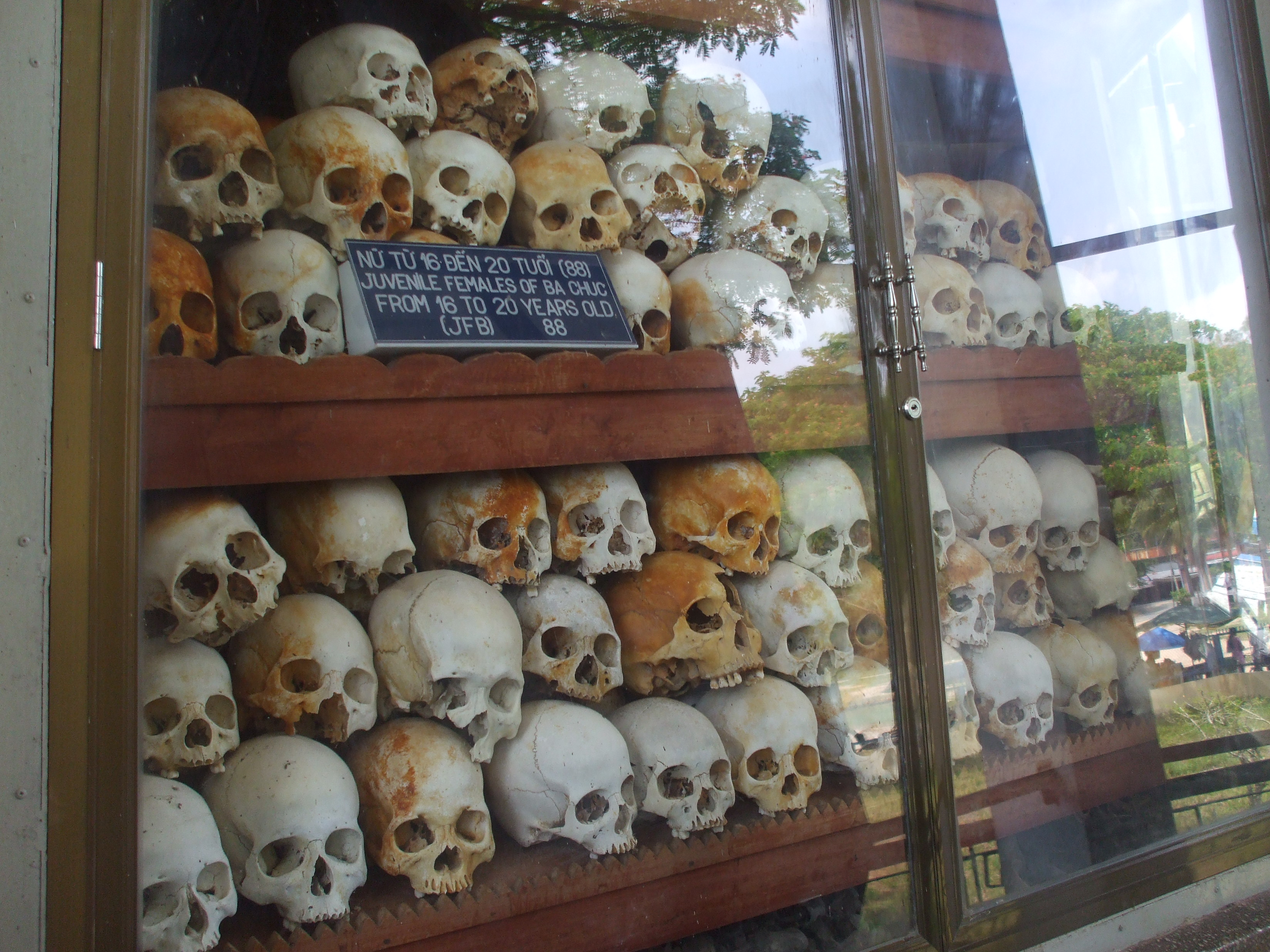 Skulls of females who have been massacred by the Khmer Rouge, Tịnh Biên county, An Giang Province.